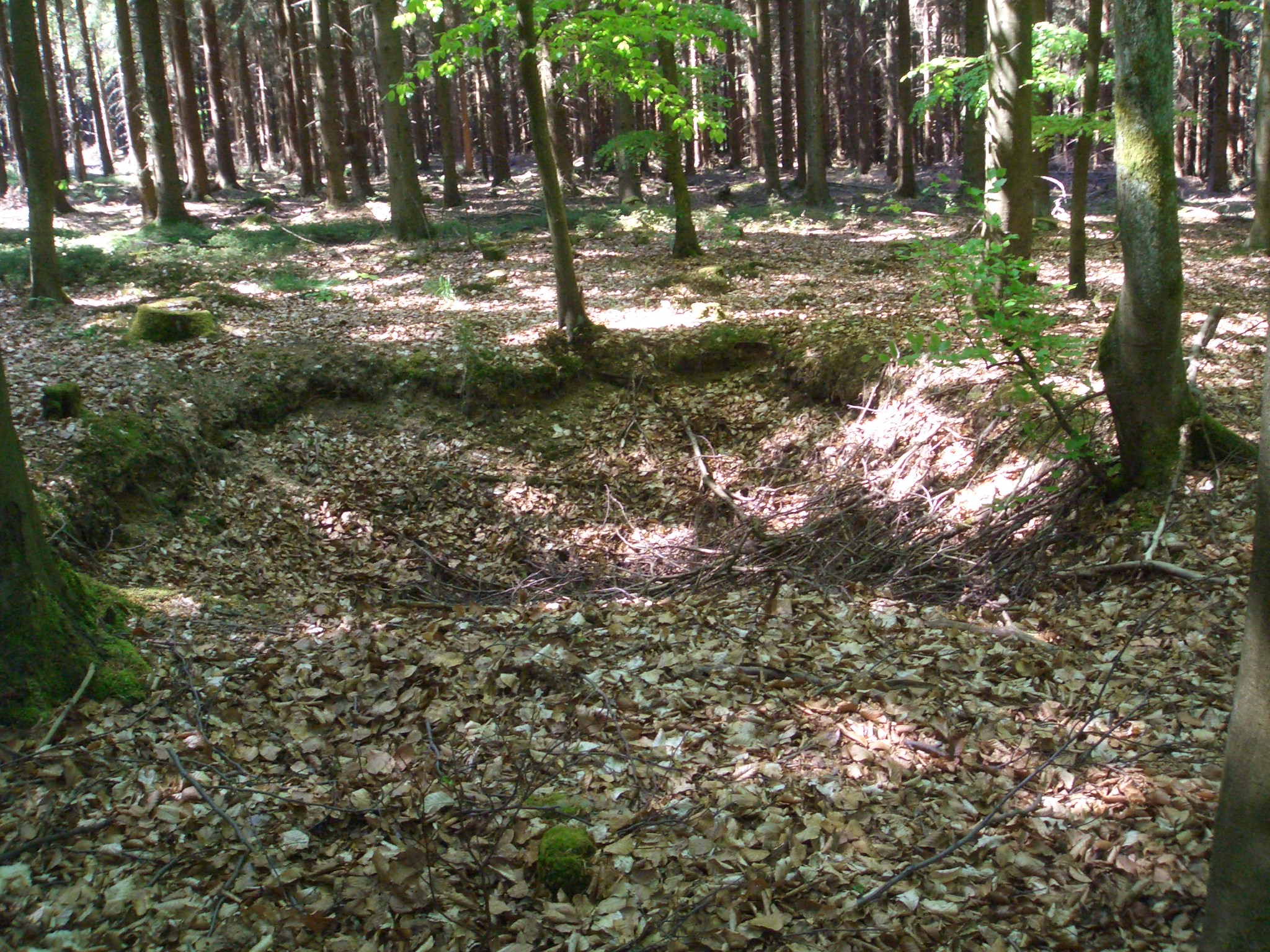 A bomb crater at the Buhlert as a trace of the Second World War in the Hurtgen Forest in the northern Eifel.